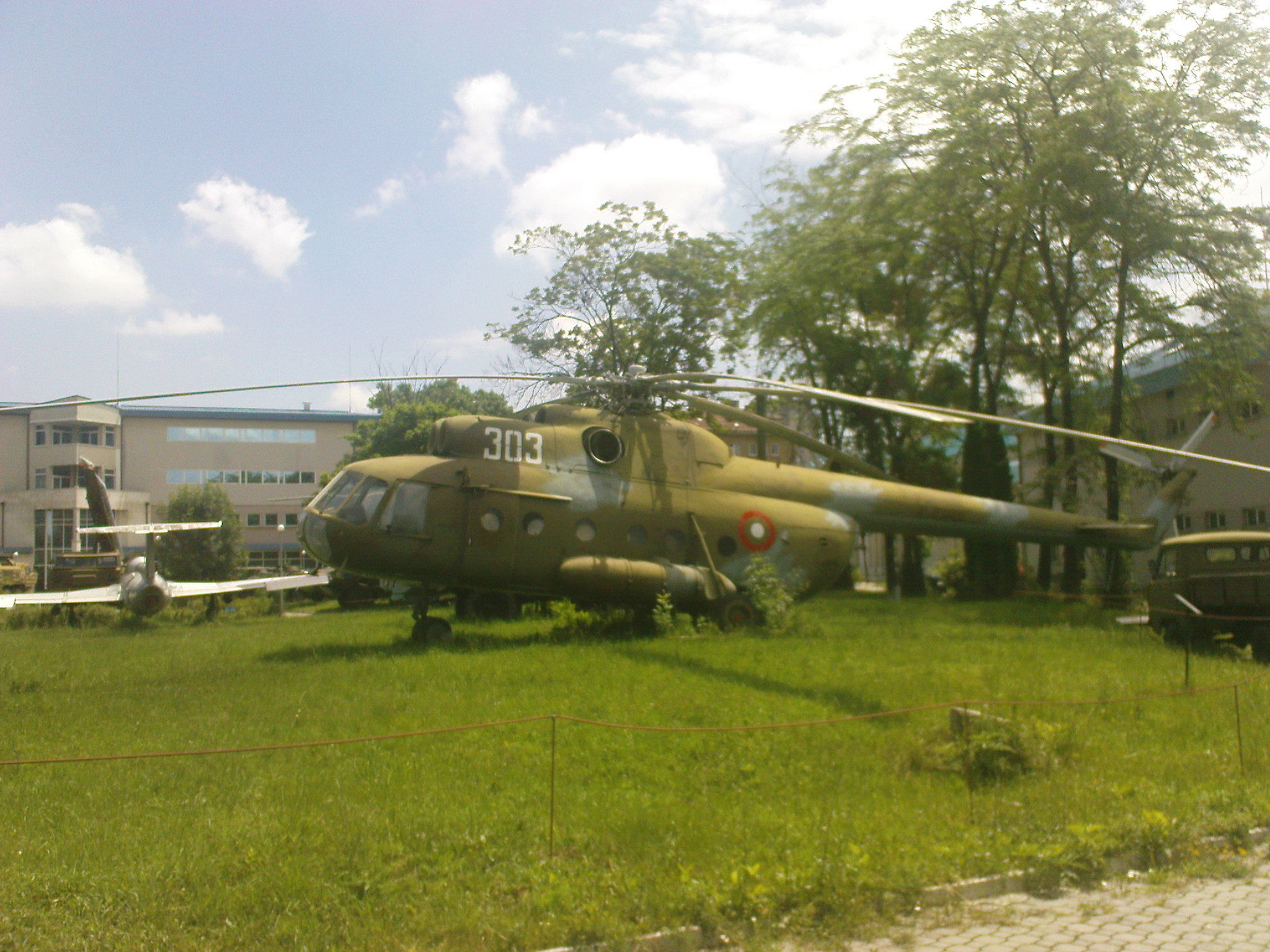 A Mil Mi-8 Hip in the National Museum of Military History, Sofia